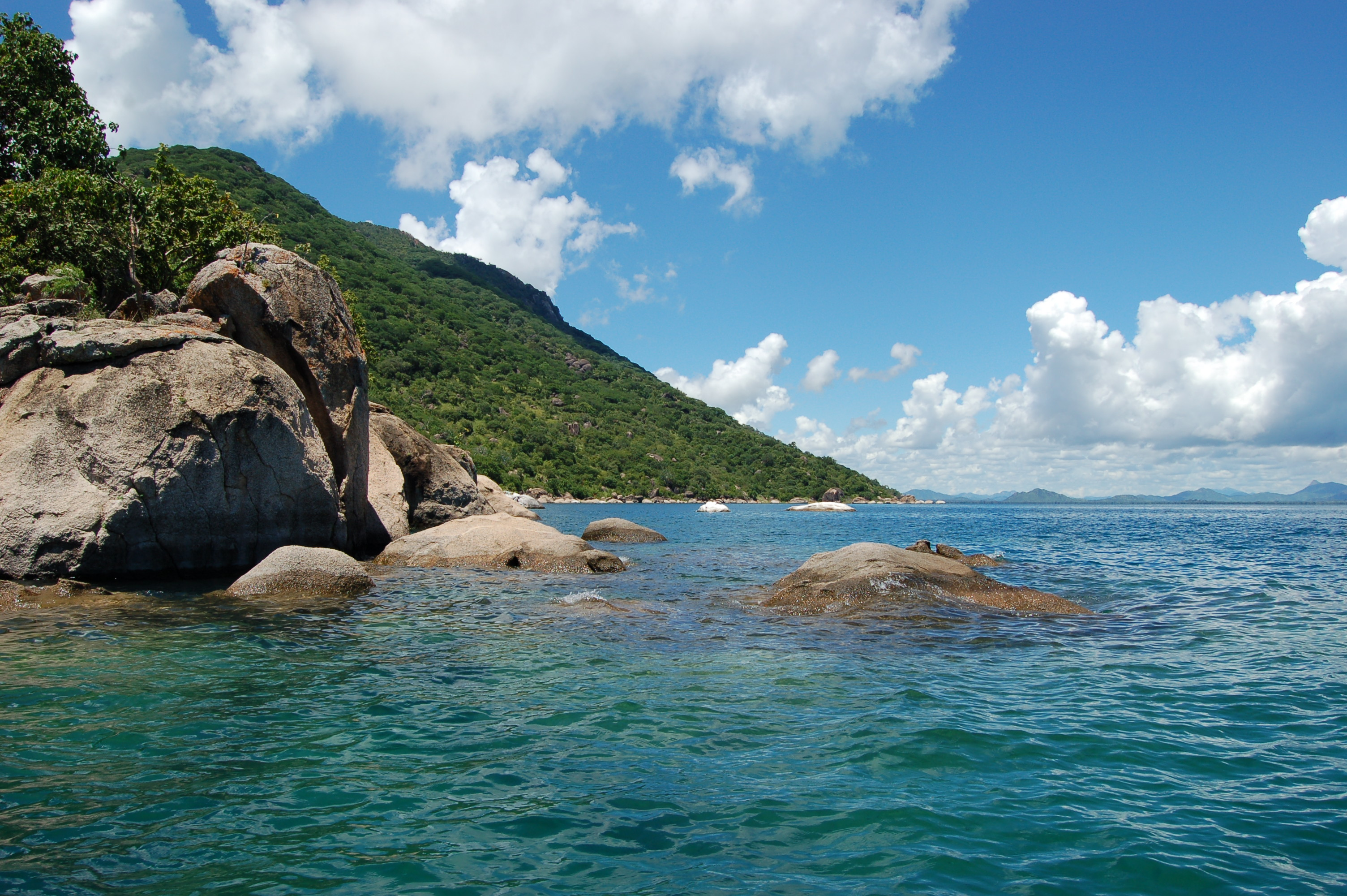 Cape McLear, Malawi